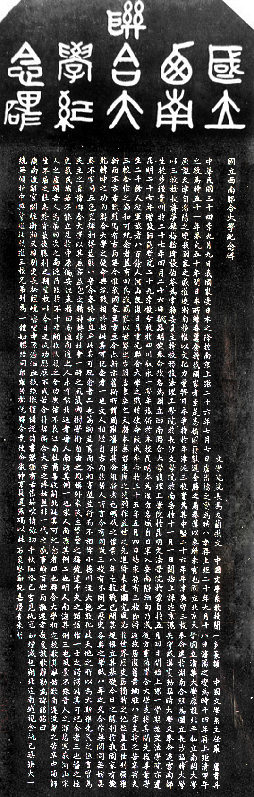 The Monument of National Southwest Associated University, 1946. (photos split joint)